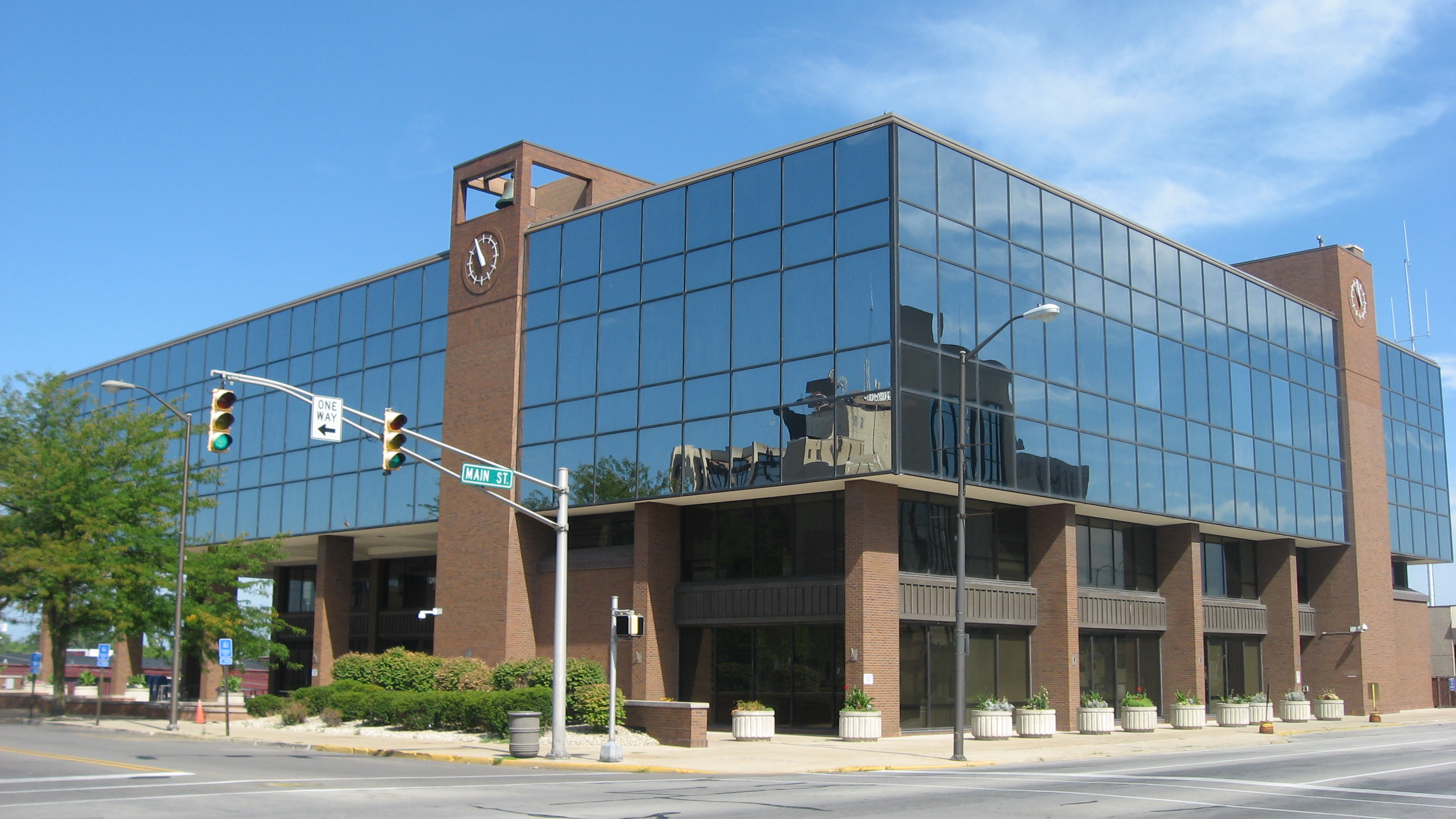 Southern and eastern sides of the Madison County Courthouse, located in the block surrounded by Eighth, Main, Ninth, and Meridian Streets in Anderson, Indiana, United States. It was built in 1973 to replace a historic courthouse that was a victim of urban renewal.